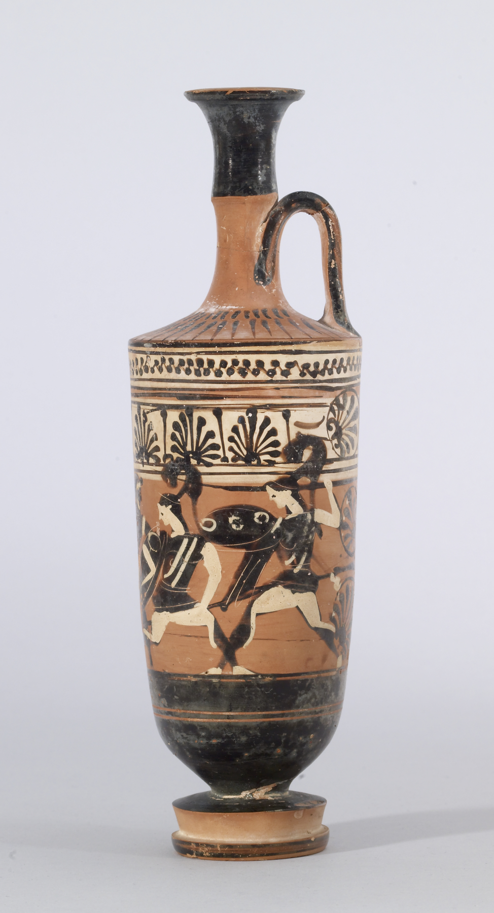 Herakles is depicted on this black-figure lekythos with his usual attributes, the lion skin and the club, which he holds in his right hand, and a quiver. He is facing right, grasping an Amazon who tries to escape from him, though she turns her head to face him. There is an Amazon on each side of this duel. One runs away from Herakles, while the other runs toward his captive, as if coming to her aid. All three are similarly dressed; two carry spears; one has no shield. Herakles' ninth labor for King Eurytheus required him to retrieve the girdle of the queen of the Amazons. While the queen at first willingly acceded to Herakles' request, the goddess Hera spread a rumor among the Amazons that Herakles intended to kidnap their queen; when the Amazons attacked him, Herakles killed her and made off with her girdle. This theme was a common subject on vases depicting the Amazons, and one of the most frequently recurring subjects on vases portraying Herakles and his labors. In vase-painting the Amazon queen is usually named Andromache (she is more often named Hippolyte in the literary evidence), and the girdle itself is usually not depicted until after the 6th century.